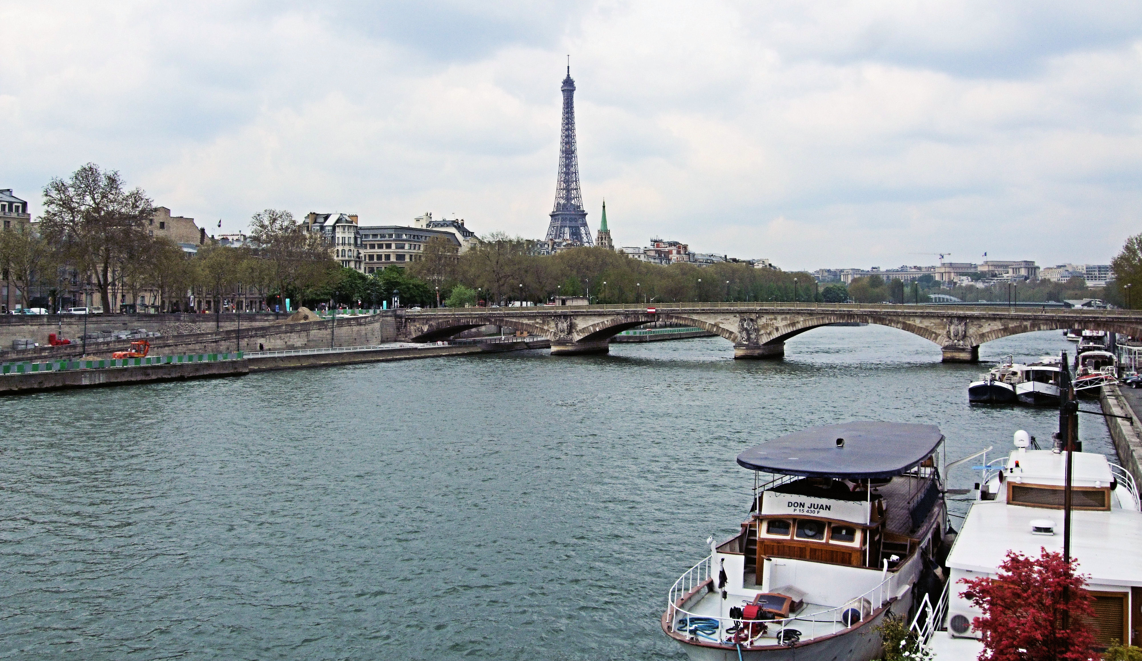 The View From Pont Alexandre, Paris.